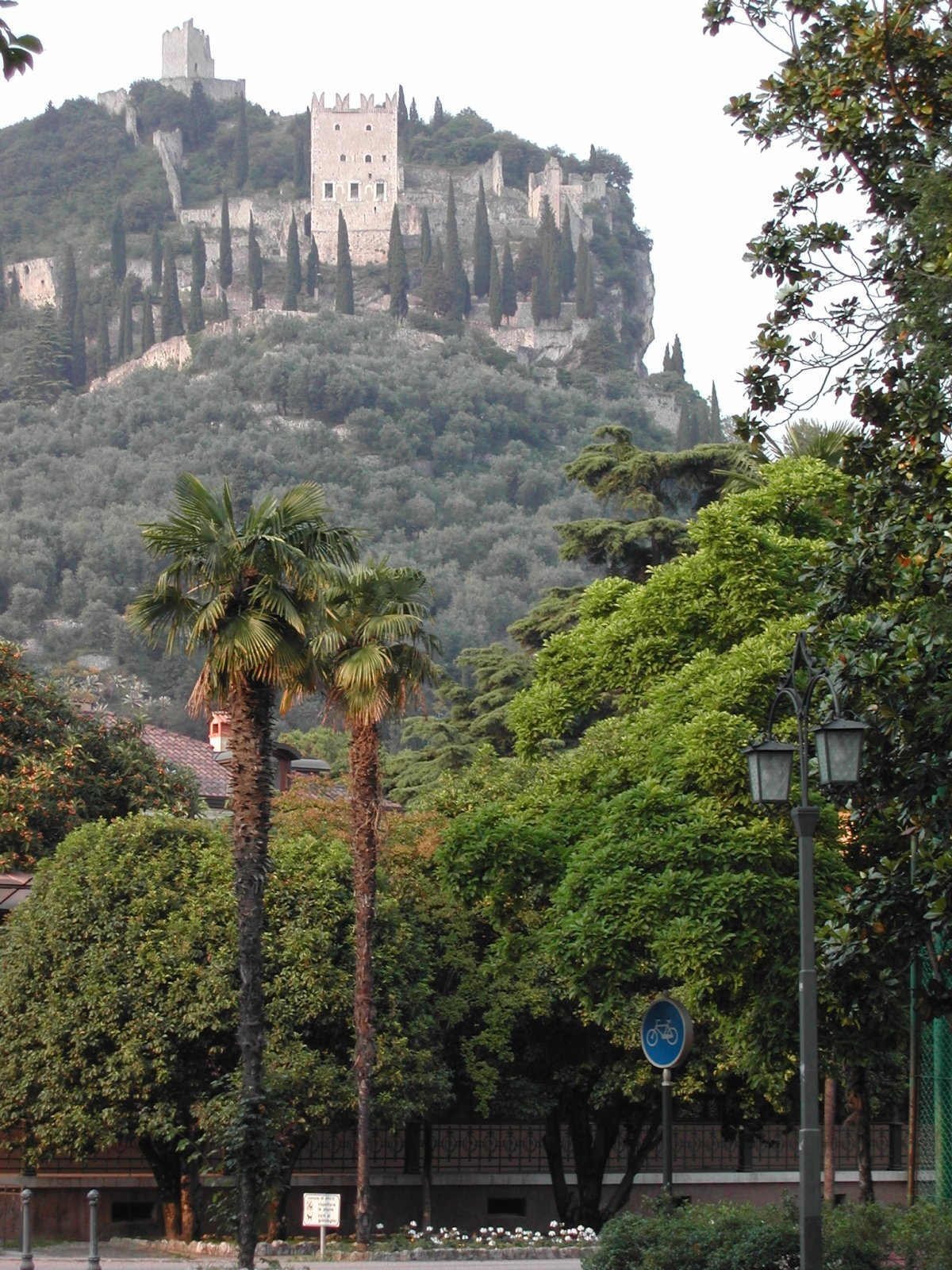 Castello of Arco, Italy